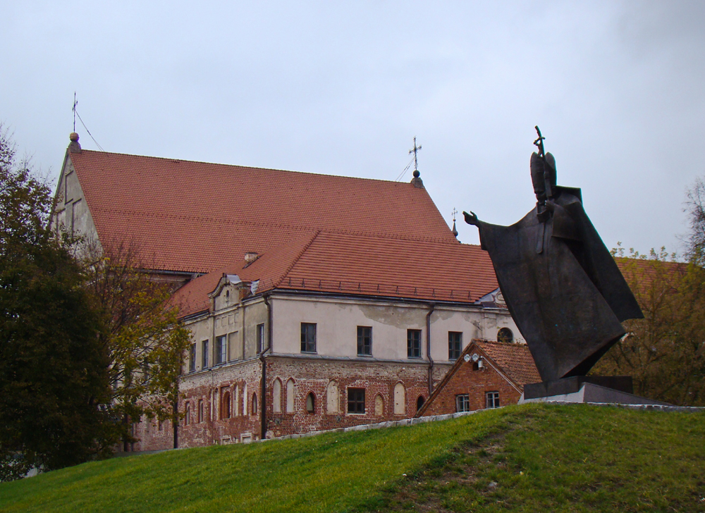 Statue of John Paul II in Kaunas, Lithuania